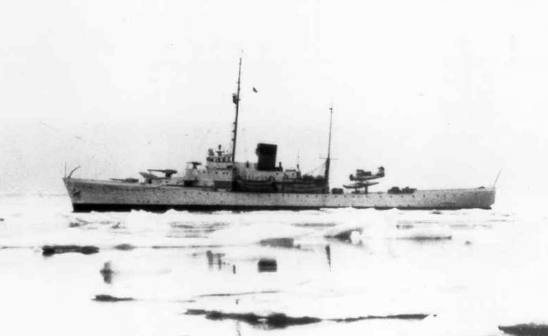 The U.S. Coast Guard cutter USCGC Duane (WPG-33) in Greenland waters, circa 1940, when she was assigned to survey the west coast of Greenland. In concert with the cutter Northland (WPG-49), which surveyed the east coast of Greenland, the cutters utilized their amphibian aircraft to complete the task. The Duane carried a Curtiss SOC-4 Seagull.